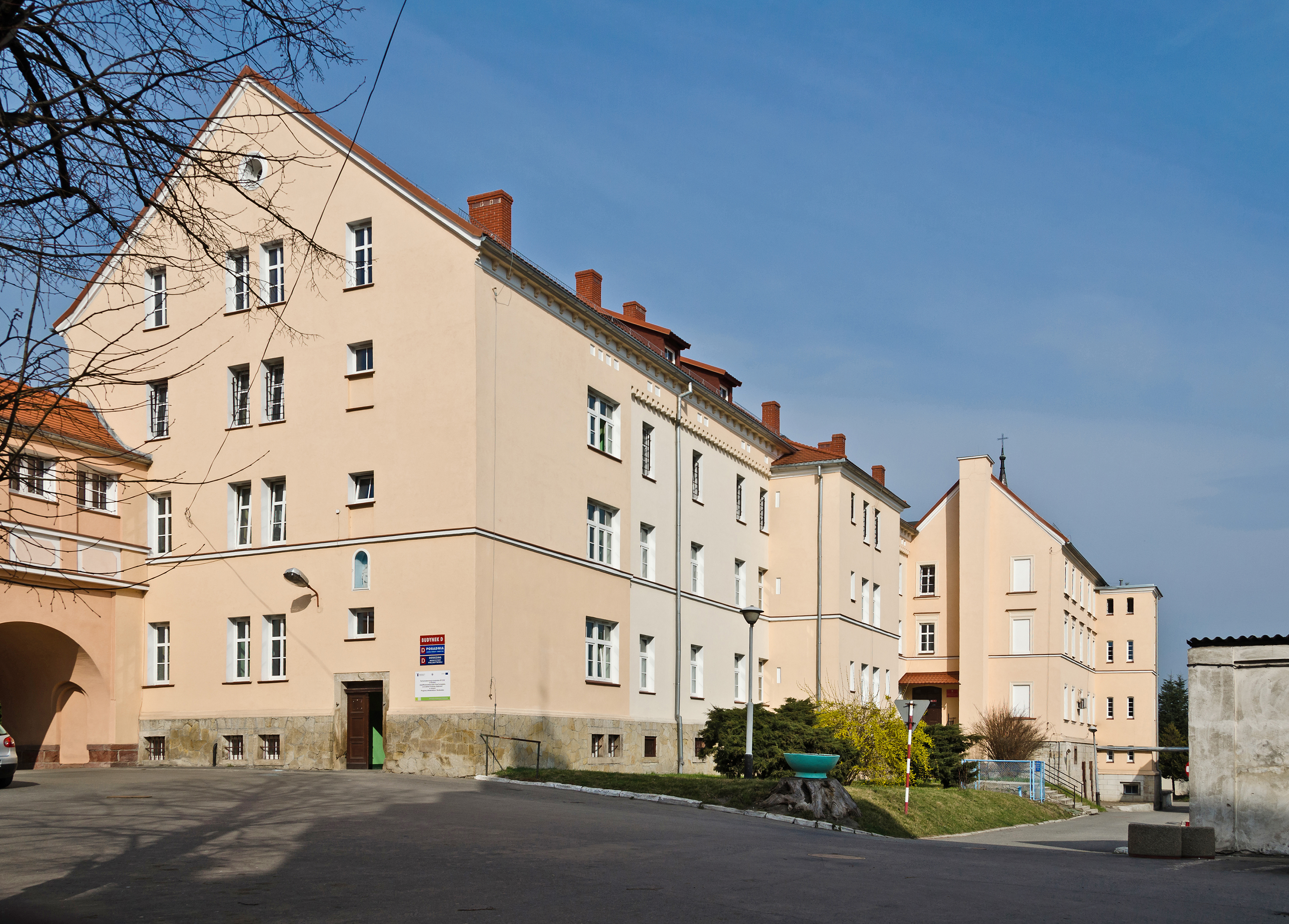 Building of Department of Pulmonology Diseases at Kłodzko Hospital